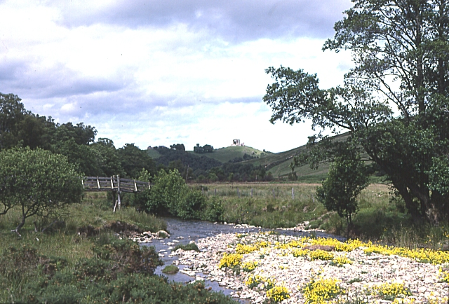 River Fiddich Taken from near Bridgehaugh. The yellow flowers are Monkey Flower (Mimulus guttatus), a non-native which has become well established in the wild around here. Auchindoun Castle is on the skyline.